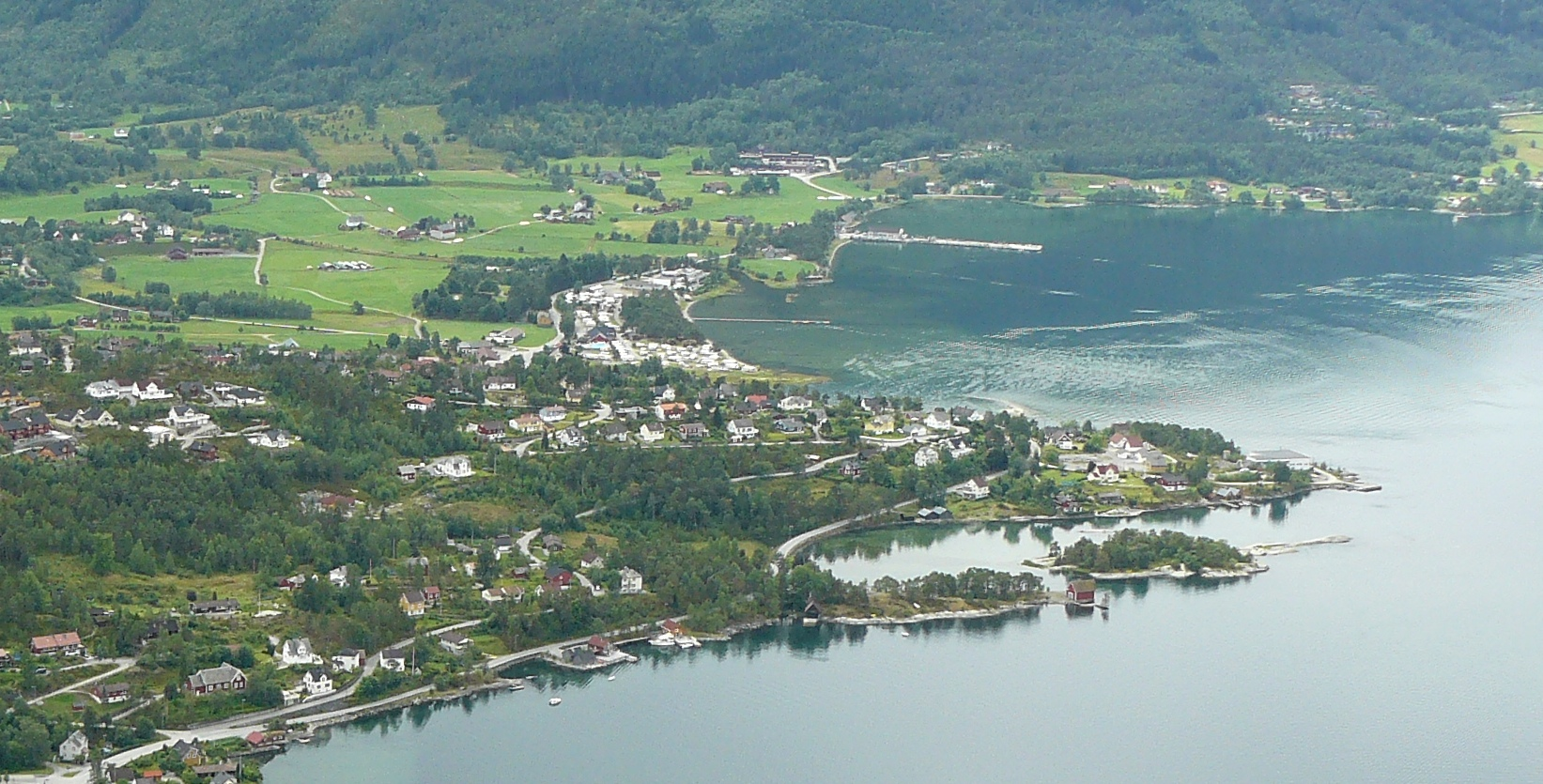 Bukta protected pelagic reserve by Sandane in Gloppen, Norway